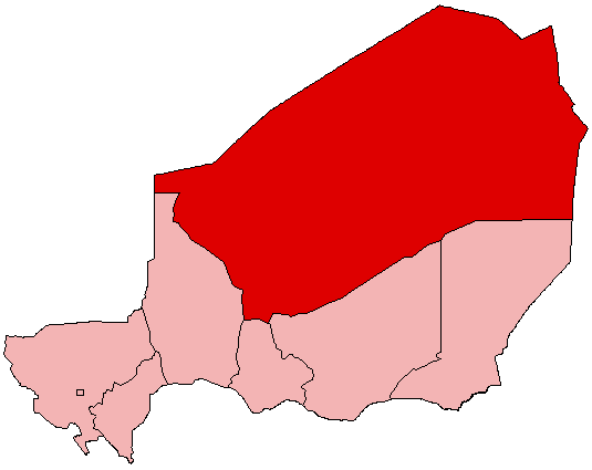 Map of Niger showing Agadez Department; created with the GIMP; Made by User:Acntx.